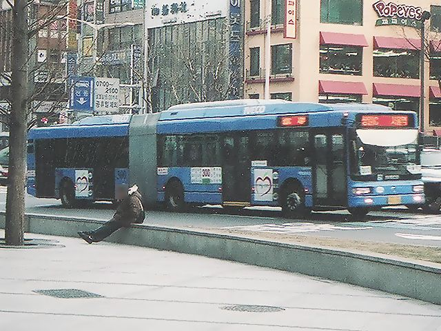 Transit Bus in Seoul City (Blue Bus, articulated bus) Company:unknown Use:transit bus Car manufacturer:Iveco type:CityClass Location:in Jongno-gu, Seoul City, South Korea Scanned from negative color print